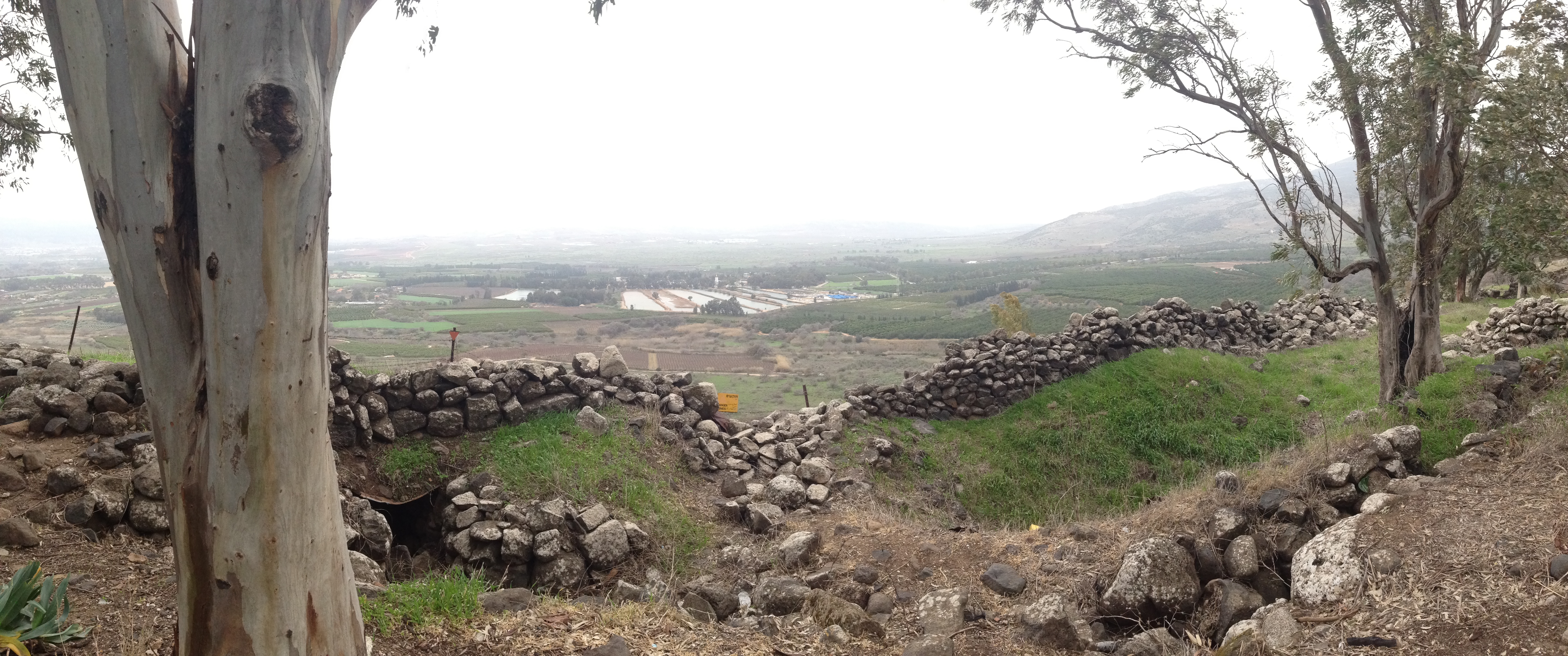 Tel Azaziat, Golan hights slopes, Israel.